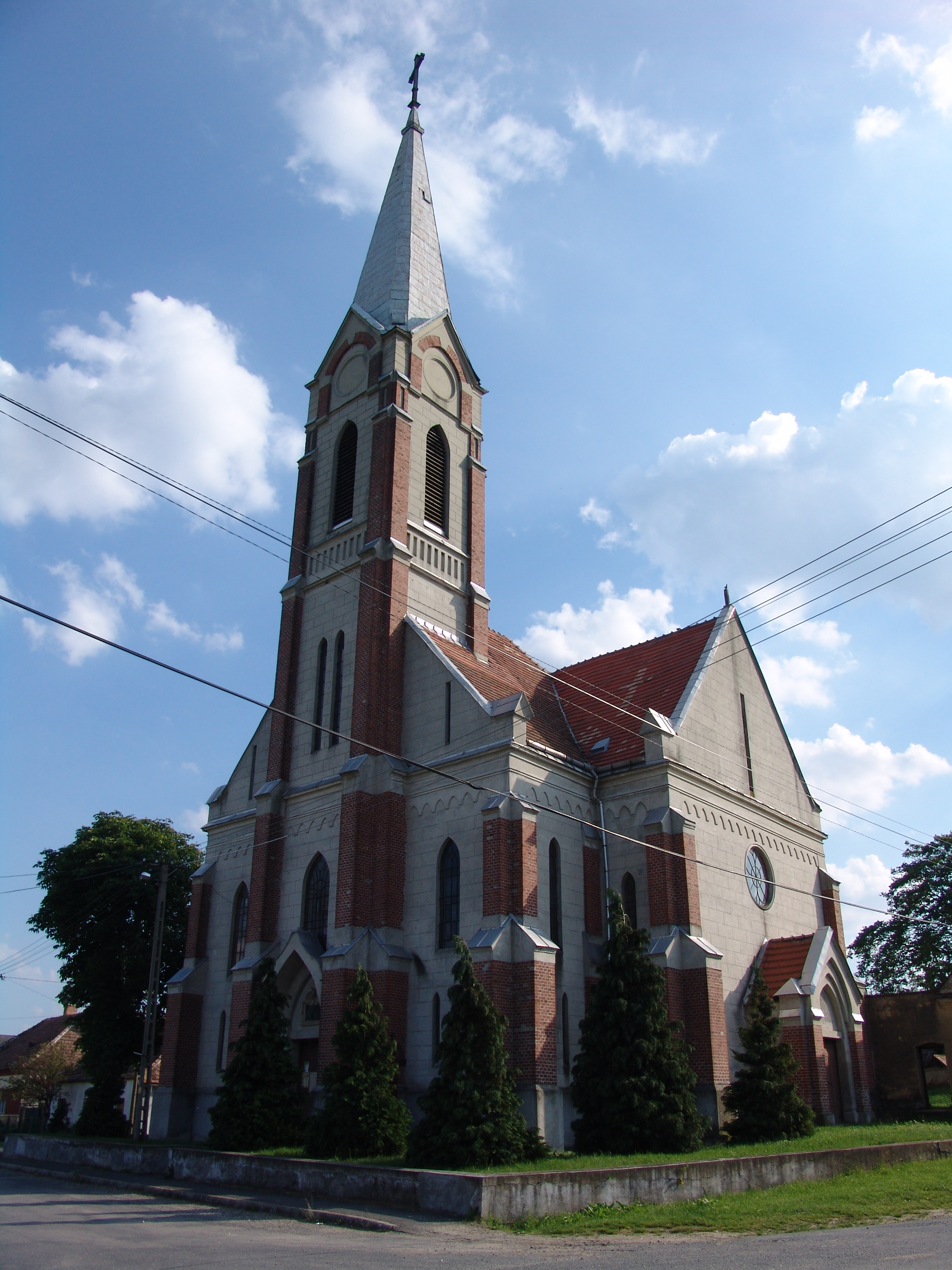 The lutheran church in Marcalgergelyi, Hungary.